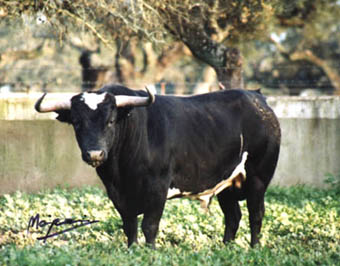 Bull of Sanchez Cobaleda